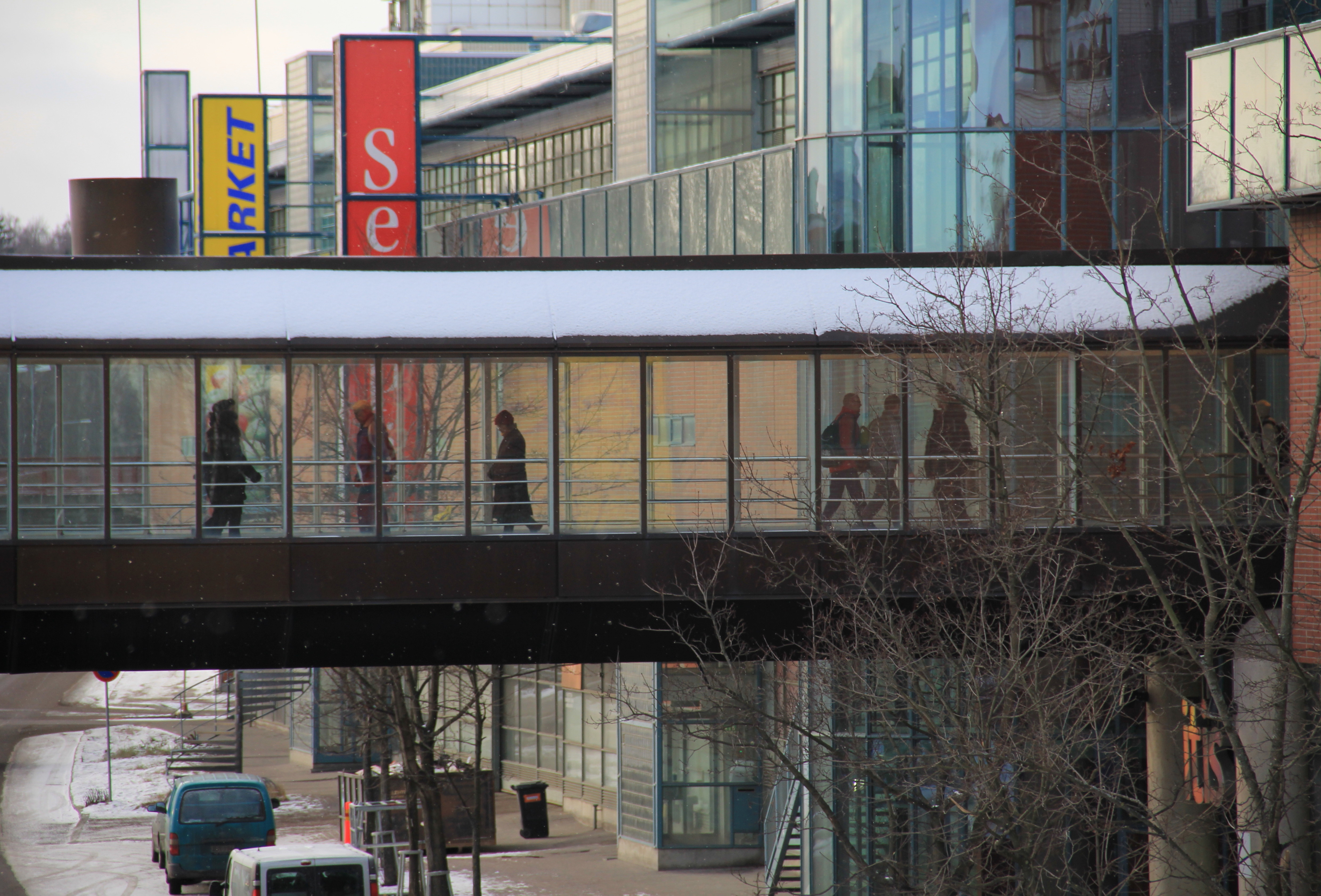 Hansasilta, a combination of a small shopping mall and a pedestrian bridge over Itäväylä, Helsinki, Finland. Completed in 1986. Architects Sakari Aartelo and Esa Piironen. Hansasilta crosses over Itäväylä connecting City-Jätti ans Itis shopping malls. Photo taken from norteast.